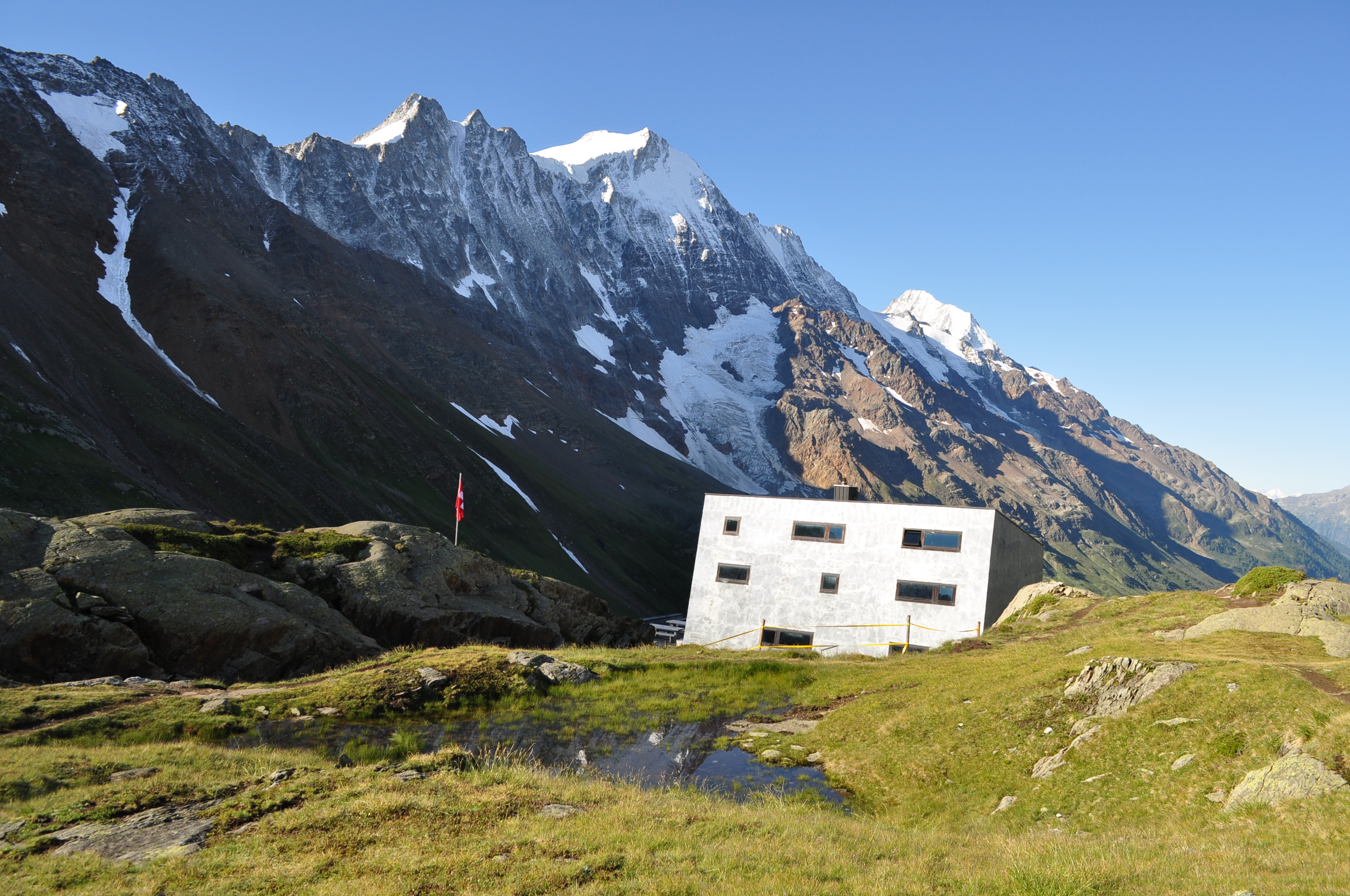 Anenhuette